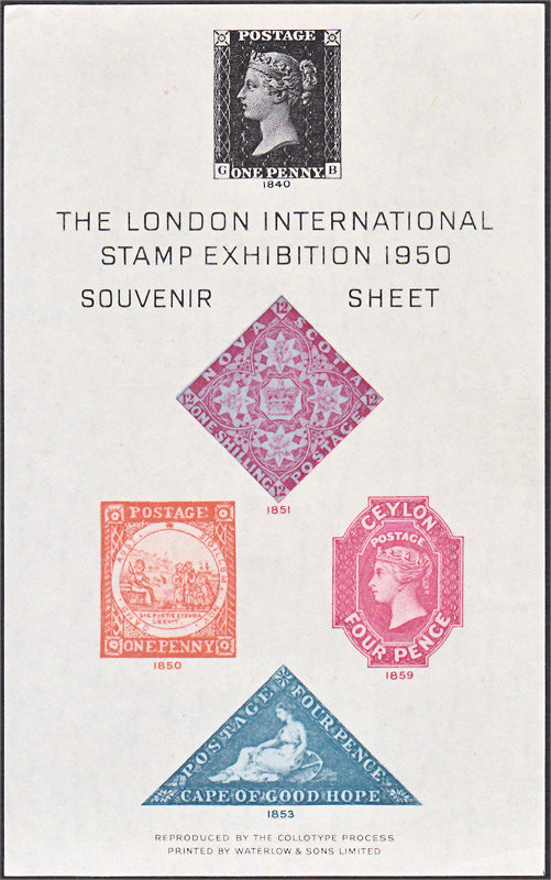 Souvenir Sheet for The London International Stamp Exhibition 1950 depicting various out-of-copyright stamps.